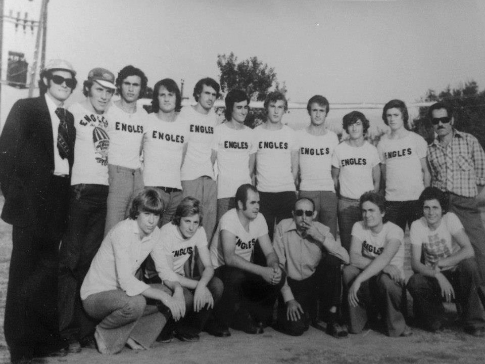 Karaorman FC - Novo Lagovo. Unknown yeas